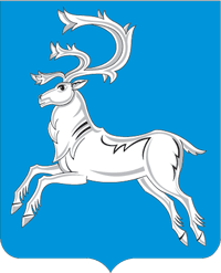 Viluysk (Yakutia), coat of arms